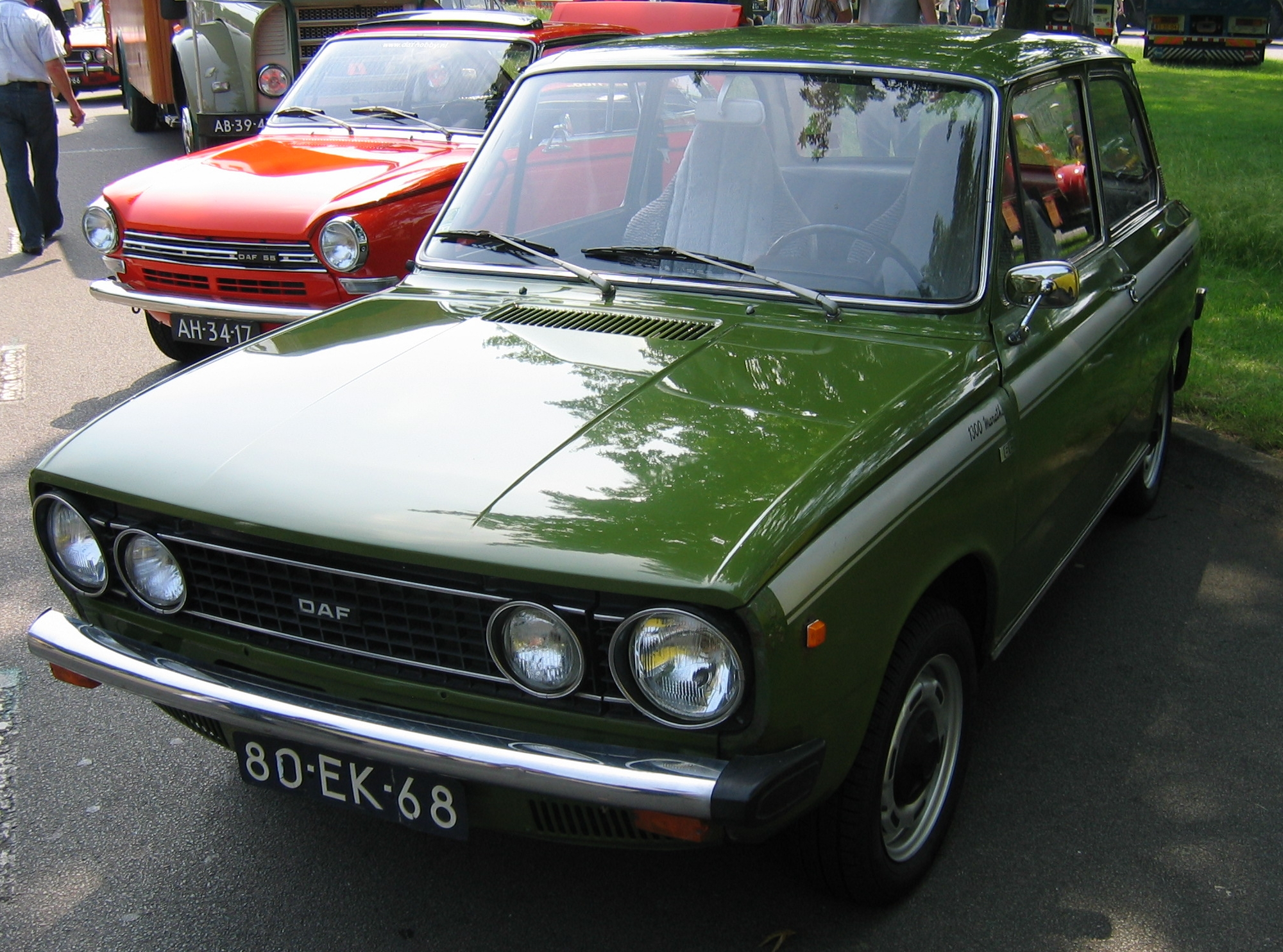 A DAF 66 at the DAF exposition during the Eindhoven Pole Position weekend.